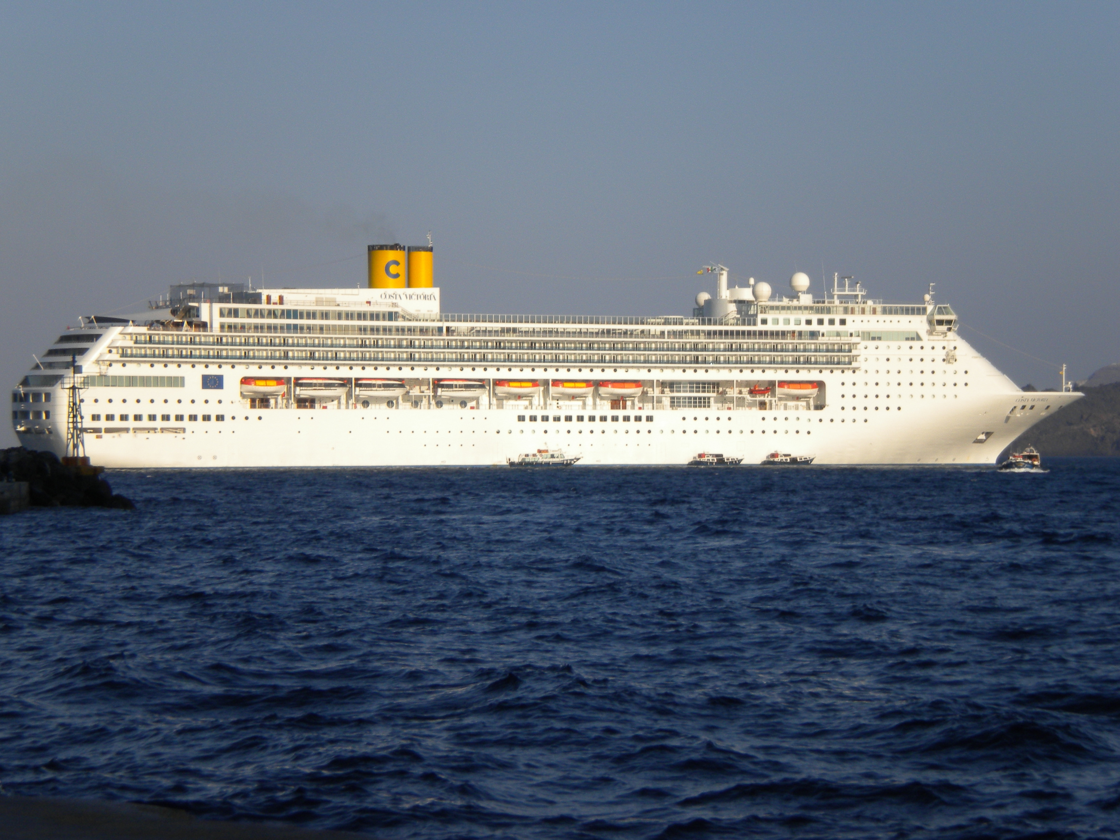 Cruise ship Costa Victoria at Santorini, Greece